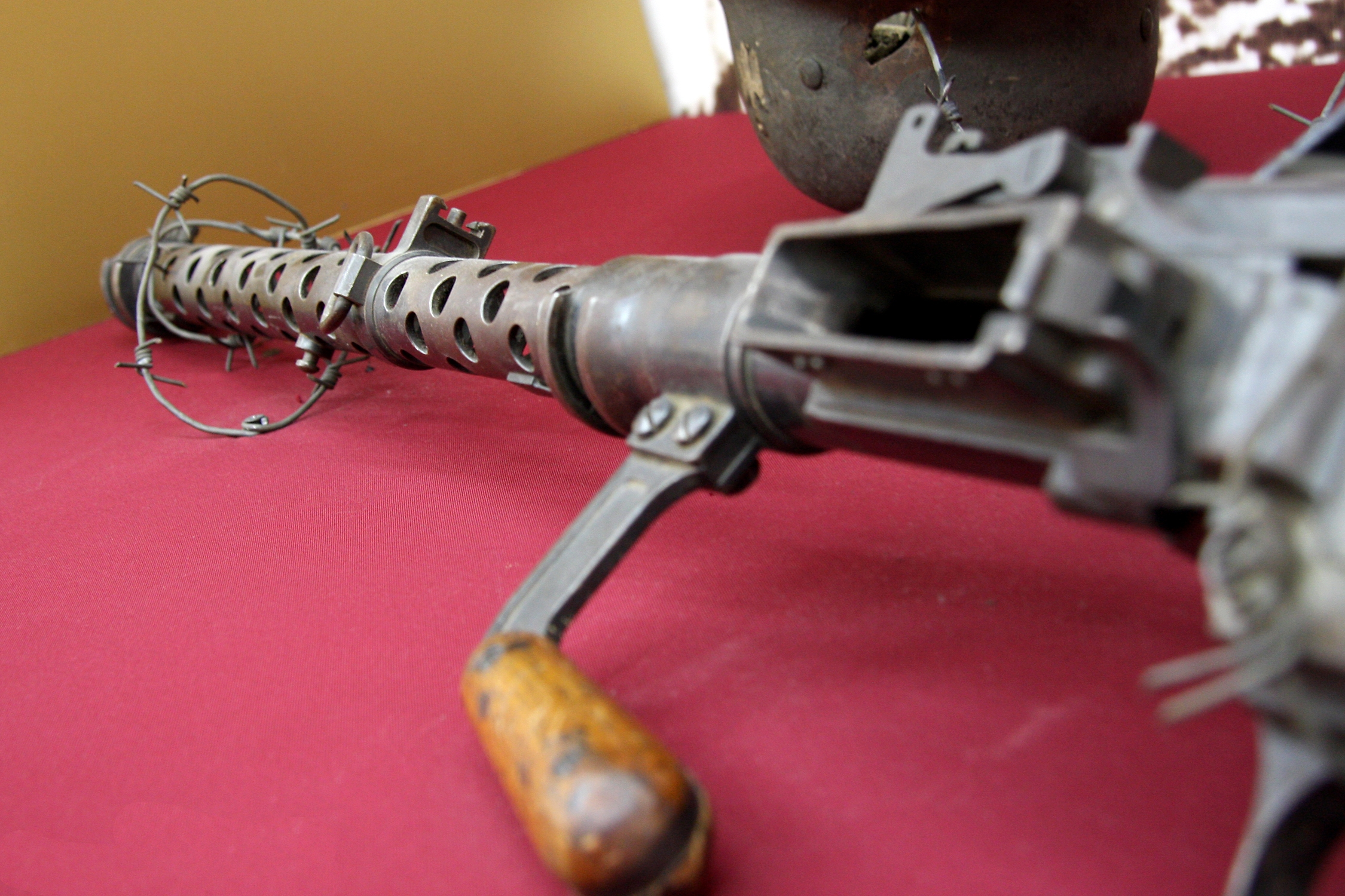 MG-13-machine gun in the Kazan city Museum-memorial of the Great Patriotic War.